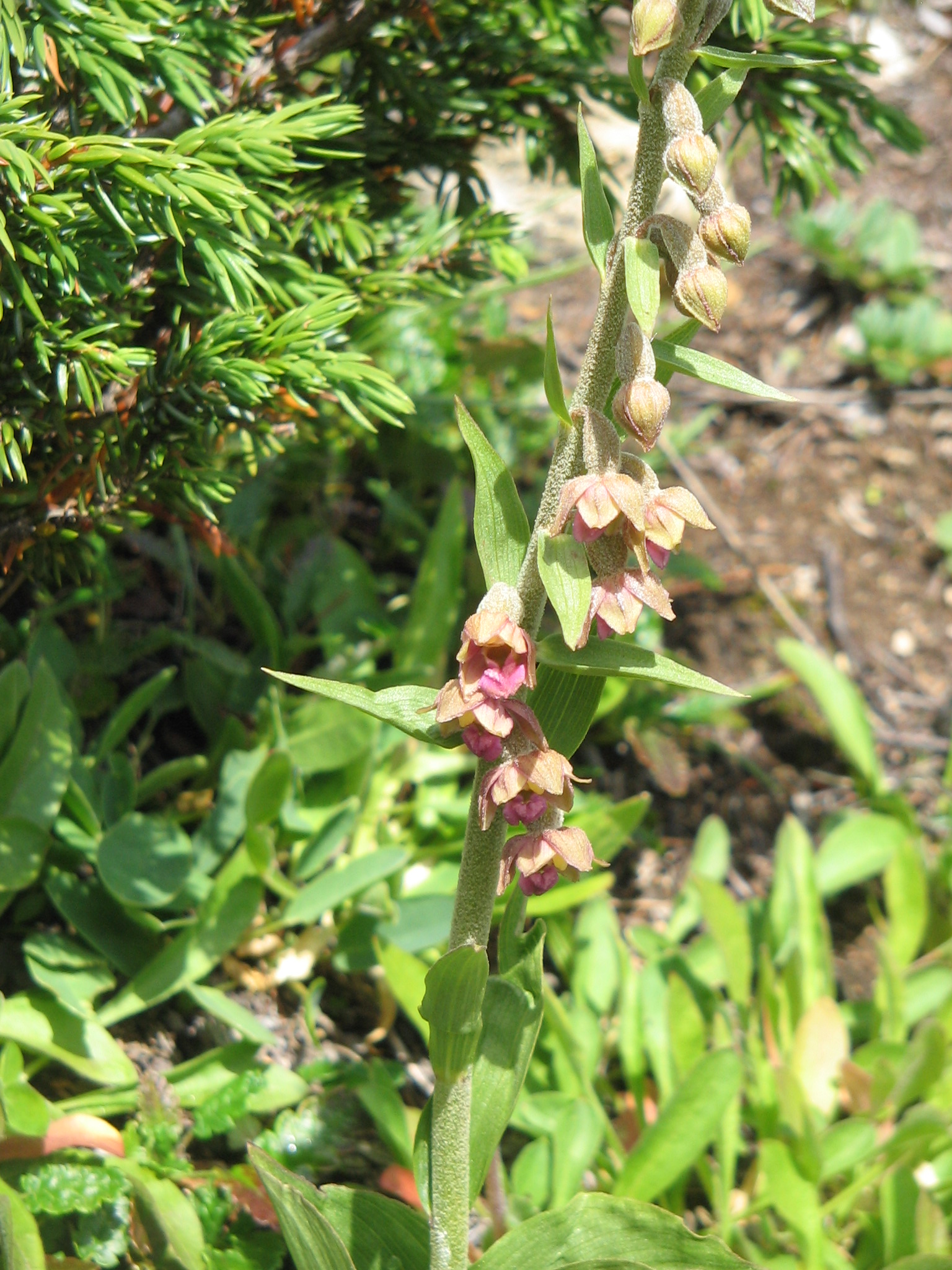 Epipactis atrorubens